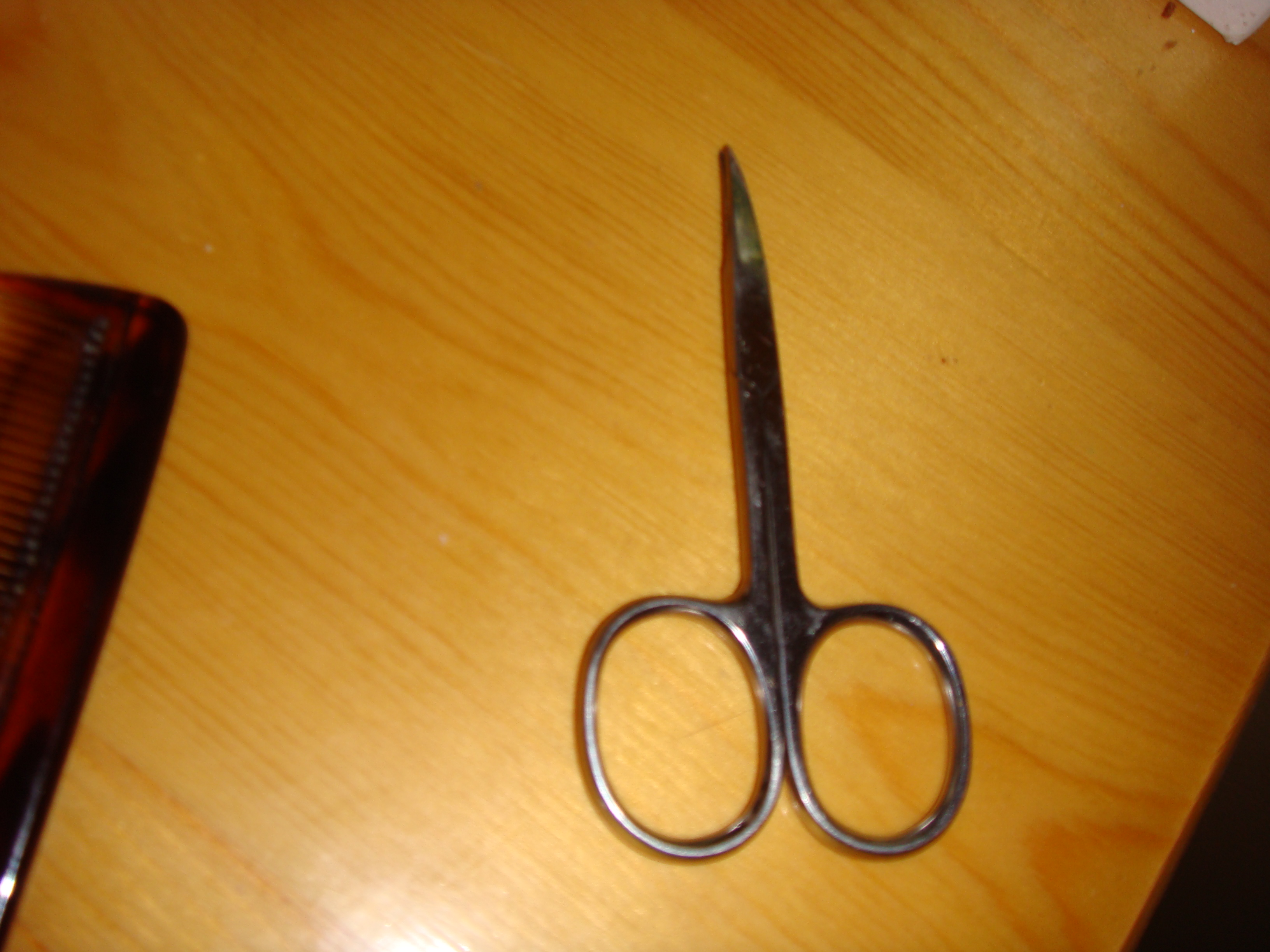 A pair of nail scissors.